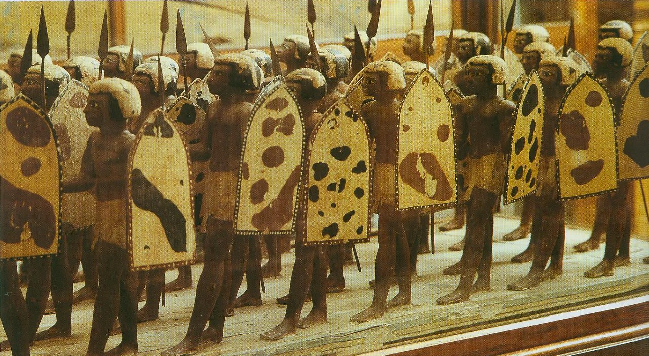 Troop of warriors figures ushabtis from the tomb of Mesehty Nomarch of Assiout. 2000 BC